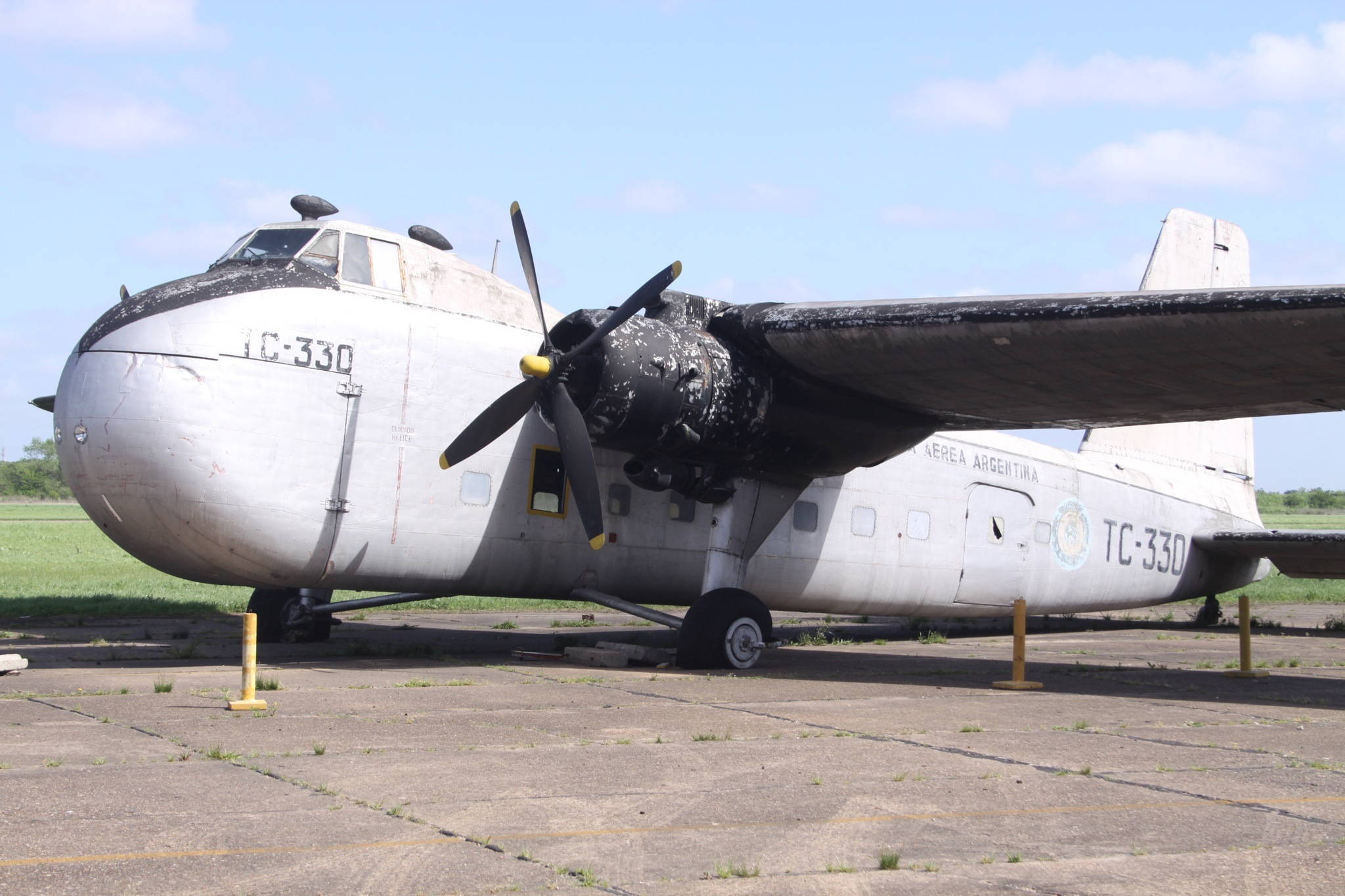 At Moron Museo Nactional De Aeronautica